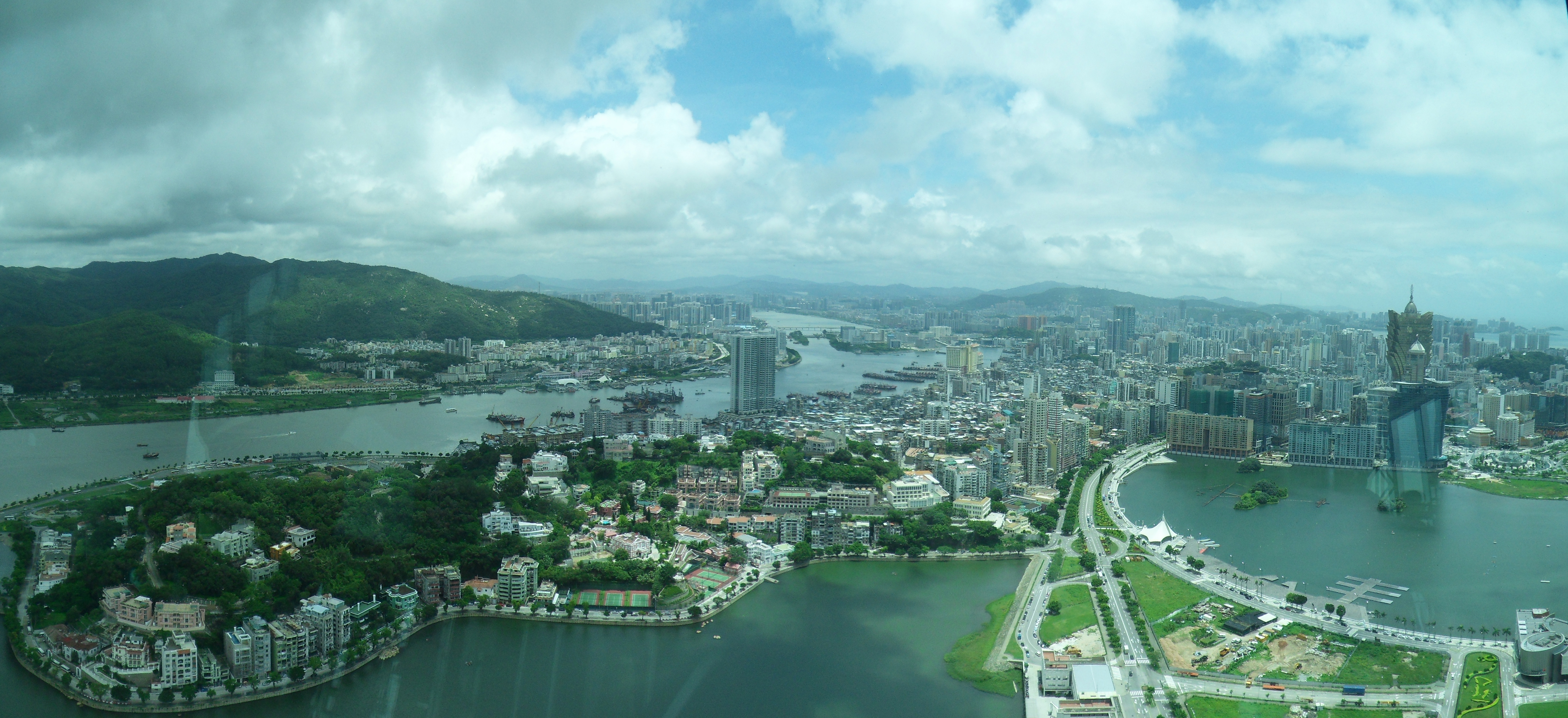 panoramic view from main observation area on macau tower.